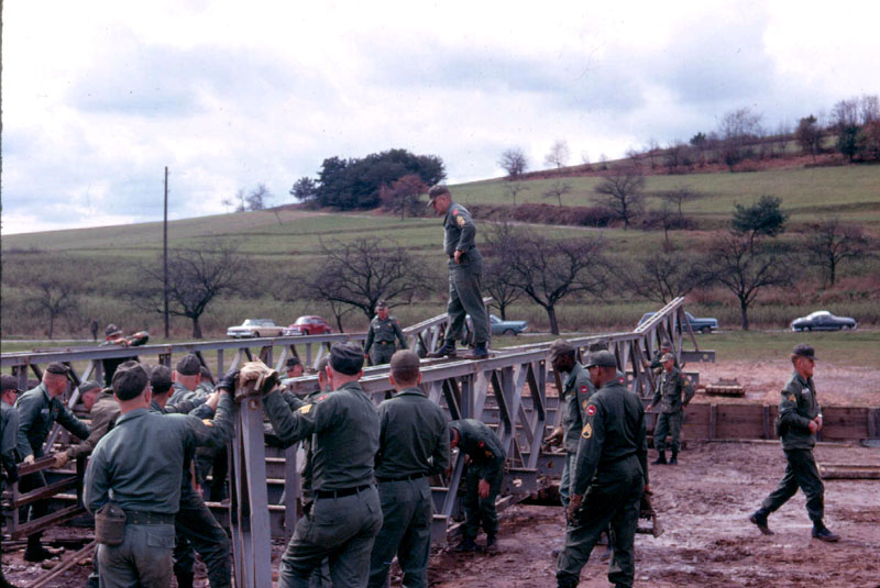 A Co, 9th Engineer Battalion builds a Bailey Bridge during a training exercise near Aschaffenburg, Germany in the spring of 1966.